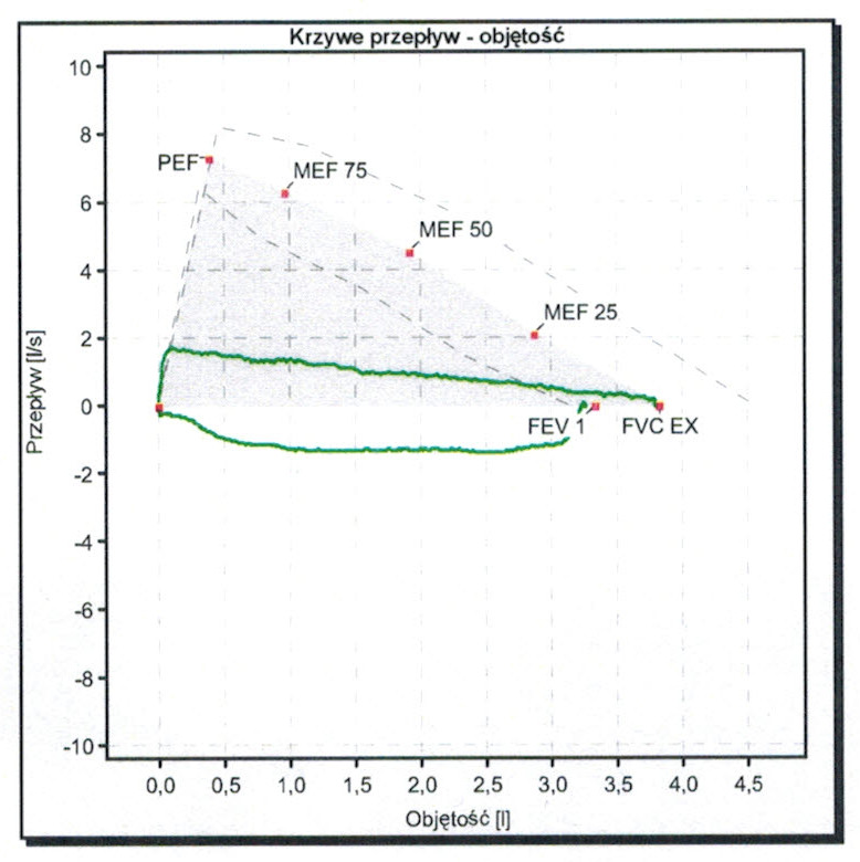 Results of a spirometry test of a 31 year old female patient with two laryngeal stenoses (scar at the level of vocal folds after left-sided chordectomy and post-intubation subglottic stenosis).